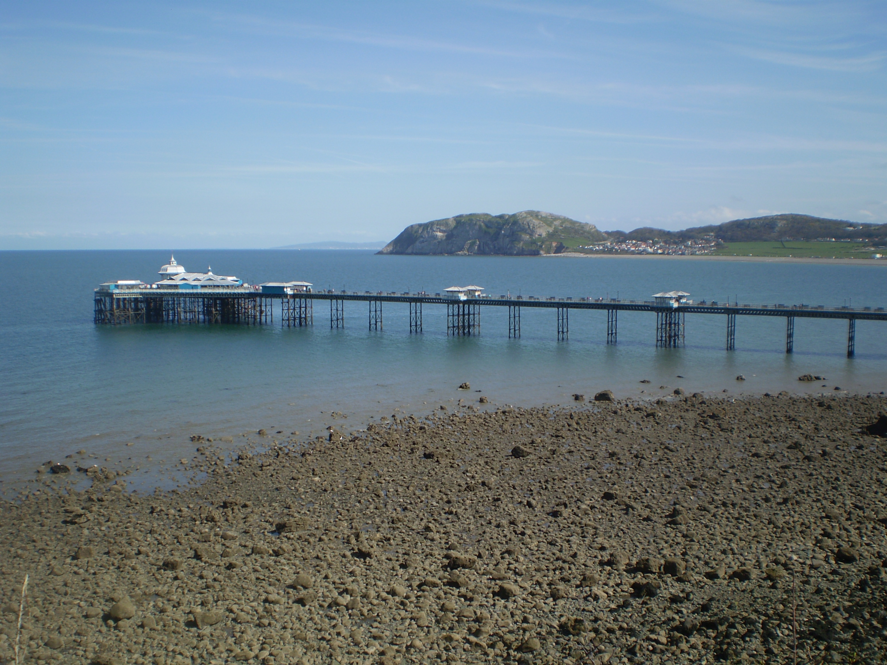 llandudno pier from great orme, wales